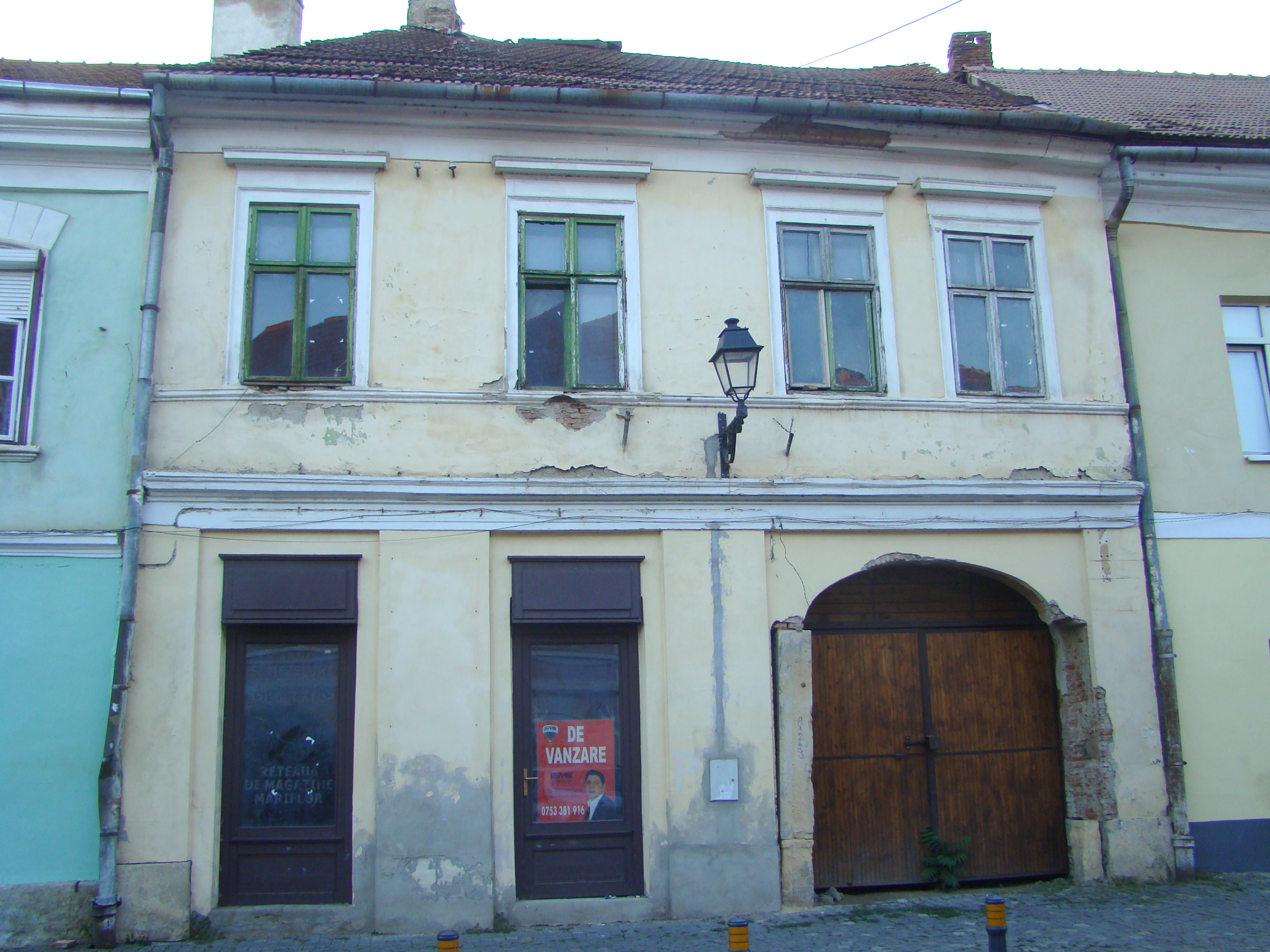 House, historic monument, in Bistrița, Nicolae Titulescu street 14